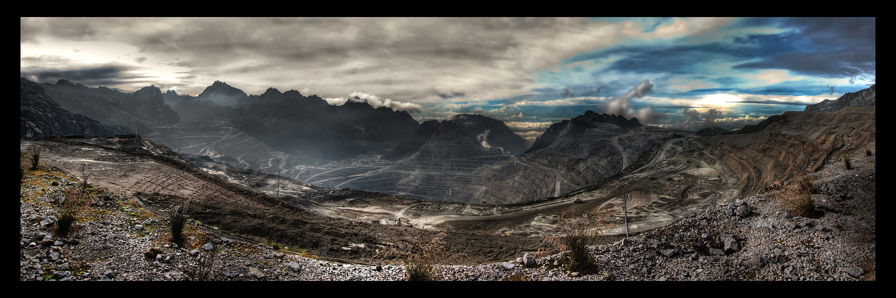 Panorama from high up at Grasberg gold and copper mine West Papua indonesia. Nikon D40x, Nikon 18-105mm VR lens. 6 HDR Images taken in portrait and stiched using Autopano pro. Make sure you view the larger versions..